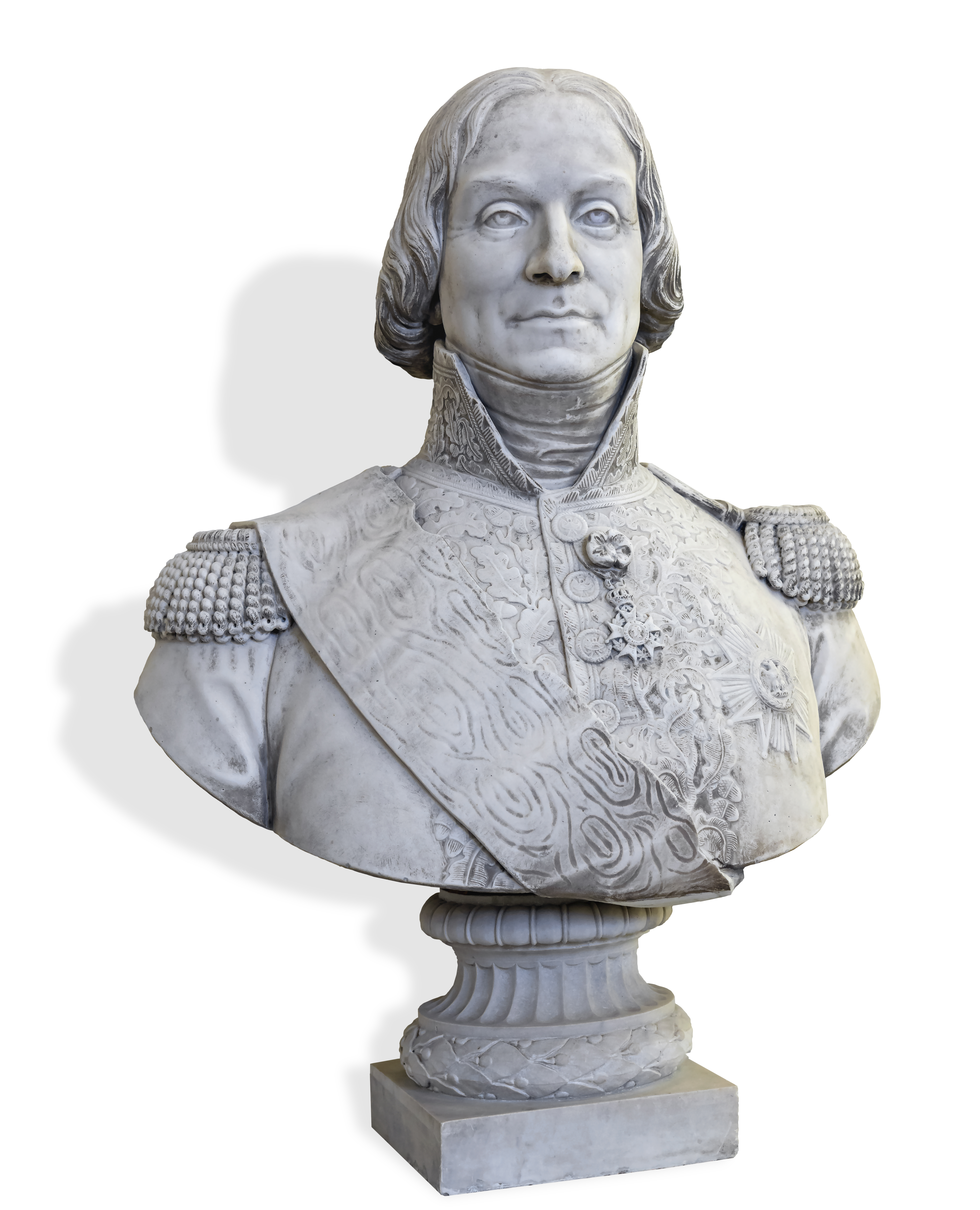 Depicted person: Jean-Joseph Ange d'Hautpoul – Napoleonic general